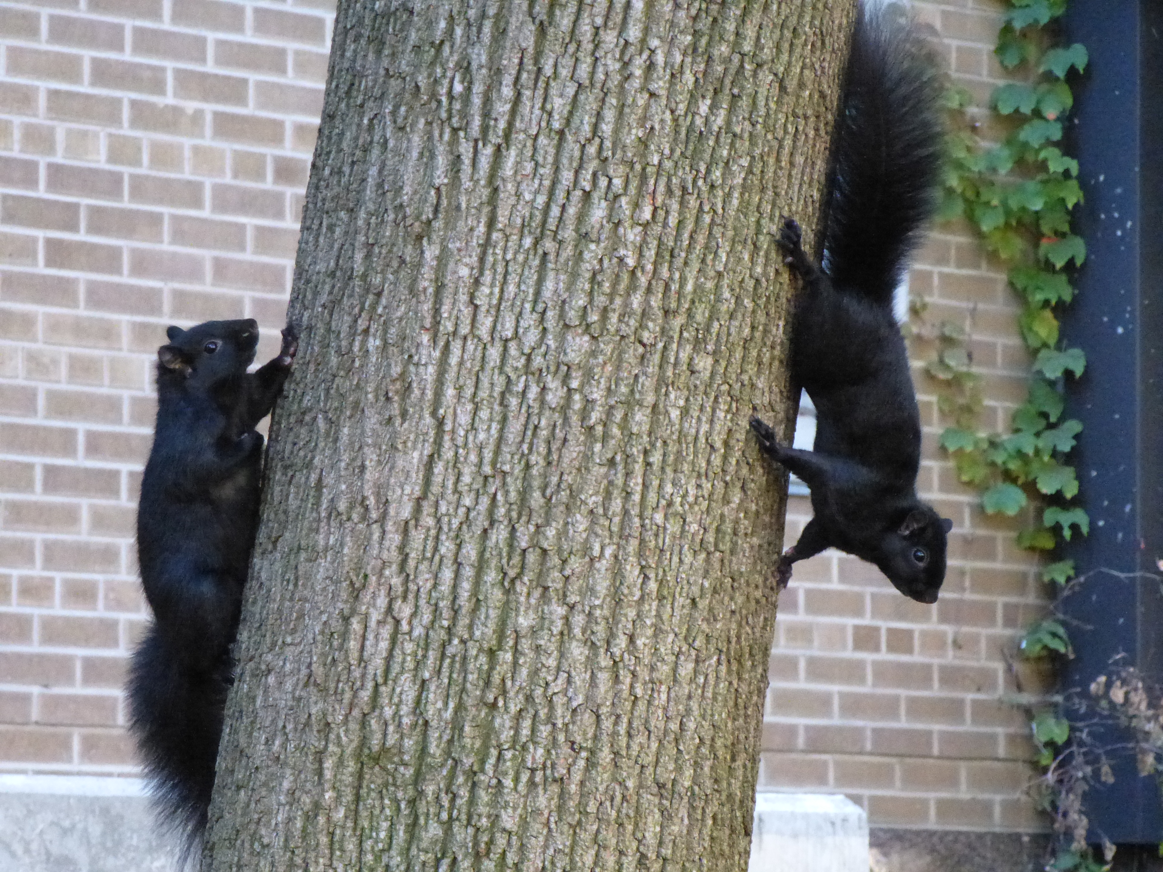 Two climbing melanistic jet-black phenotype Sciurus carolinensis in Ryerson University, Toronto, Canada.